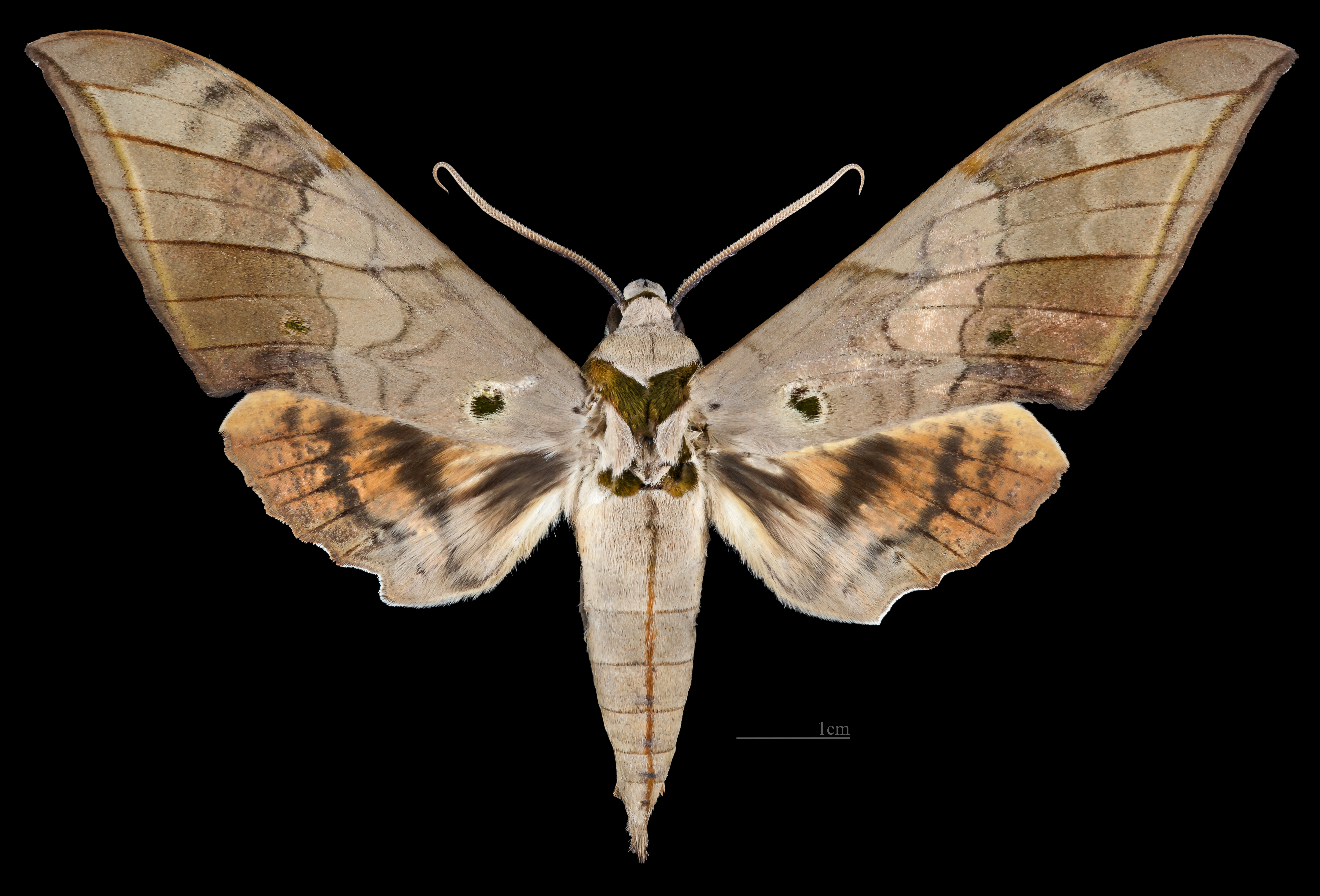 Ambulyx auripennis - Dorsal side Collection of the Mathematician Laurent Schwartz